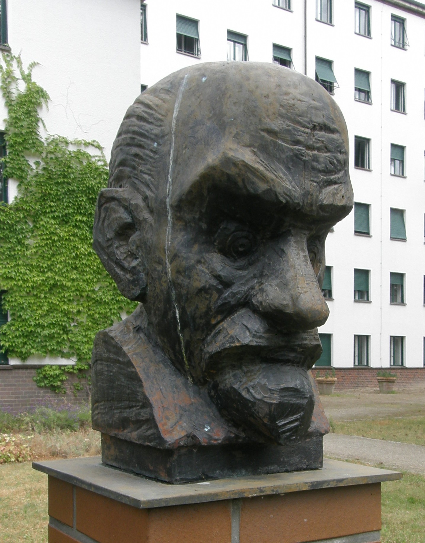 Bronze bust of Oskar Vogt located in the biomedical Berlin-Buch Campus at the former Institute for Brain Research. Created by Hans Scheib in 2002.